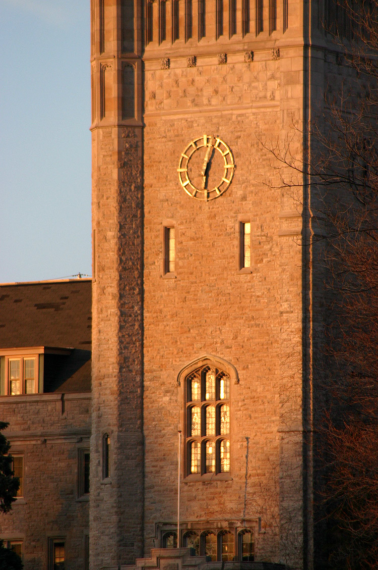 Johnston Hall Clock Tower, University of Guelph, Guelph, Ontario, Canada